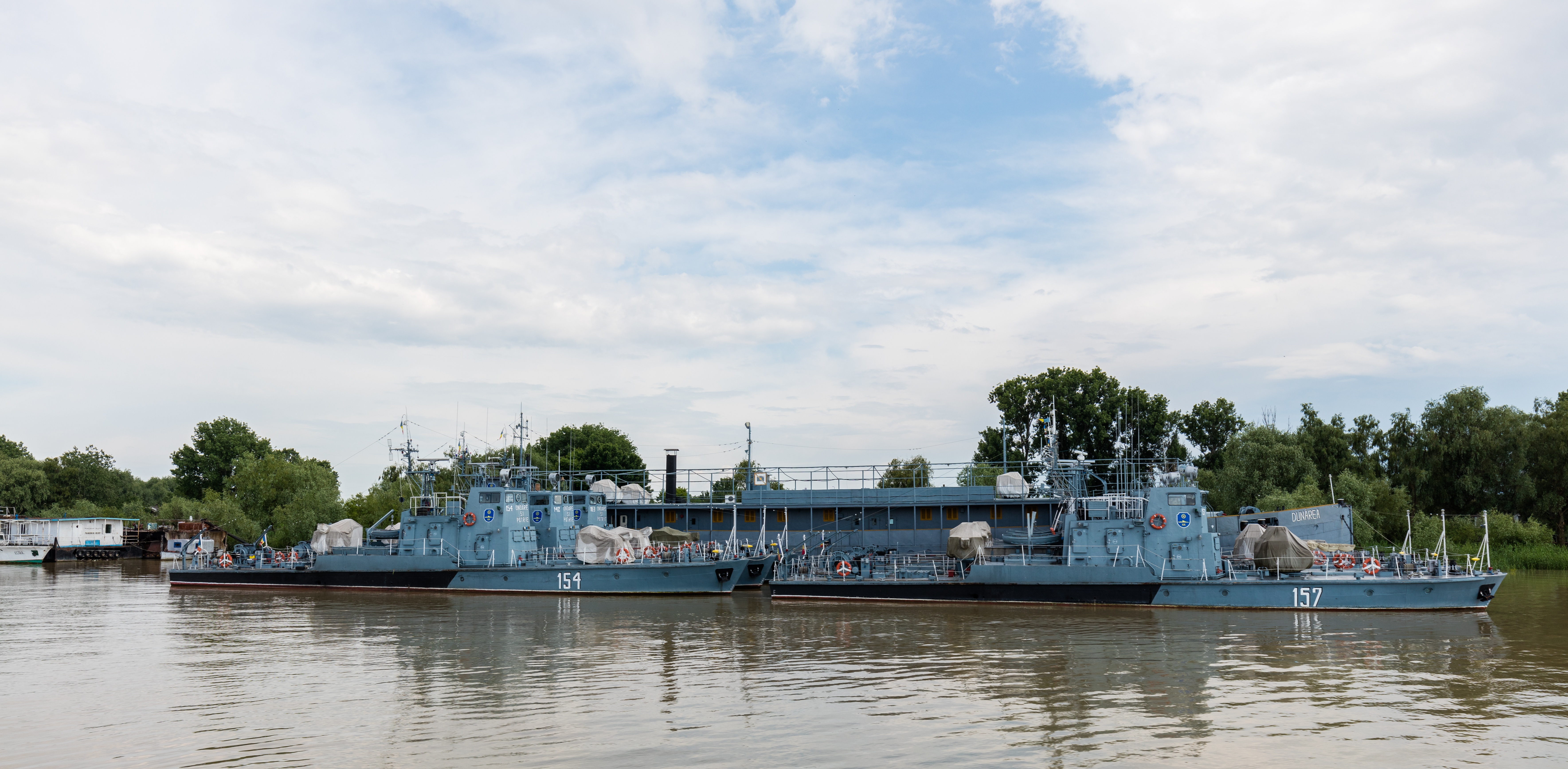 Naval vessels in the Danube Delta, Romania